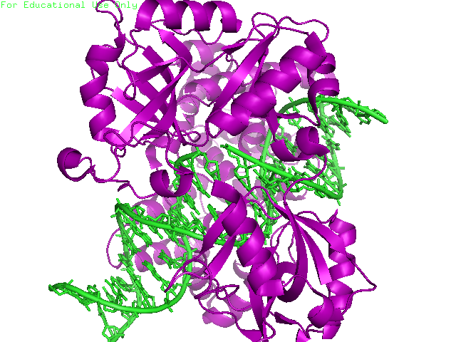 Shown is nicked DNA being repaired by DNA ligase.